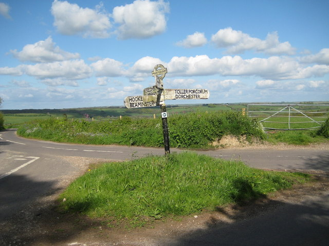 Signpost - Mount Pleasant A staggered crossroads where five lanes meet. They connect Hooke, North Poorton, Powerstock, Higher Kingcombe and Toller Porcorum.